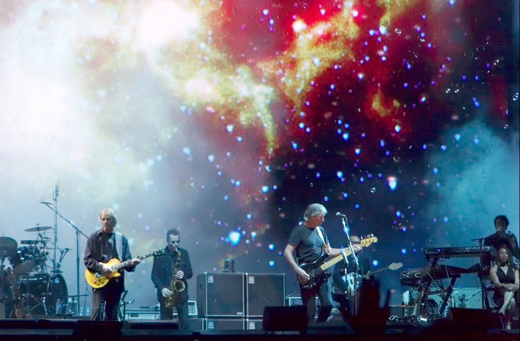 Roger Waters performing on his Dark Side Of The Moon Live tour at Equity Members Stadium, Perth, Australia in 2007.